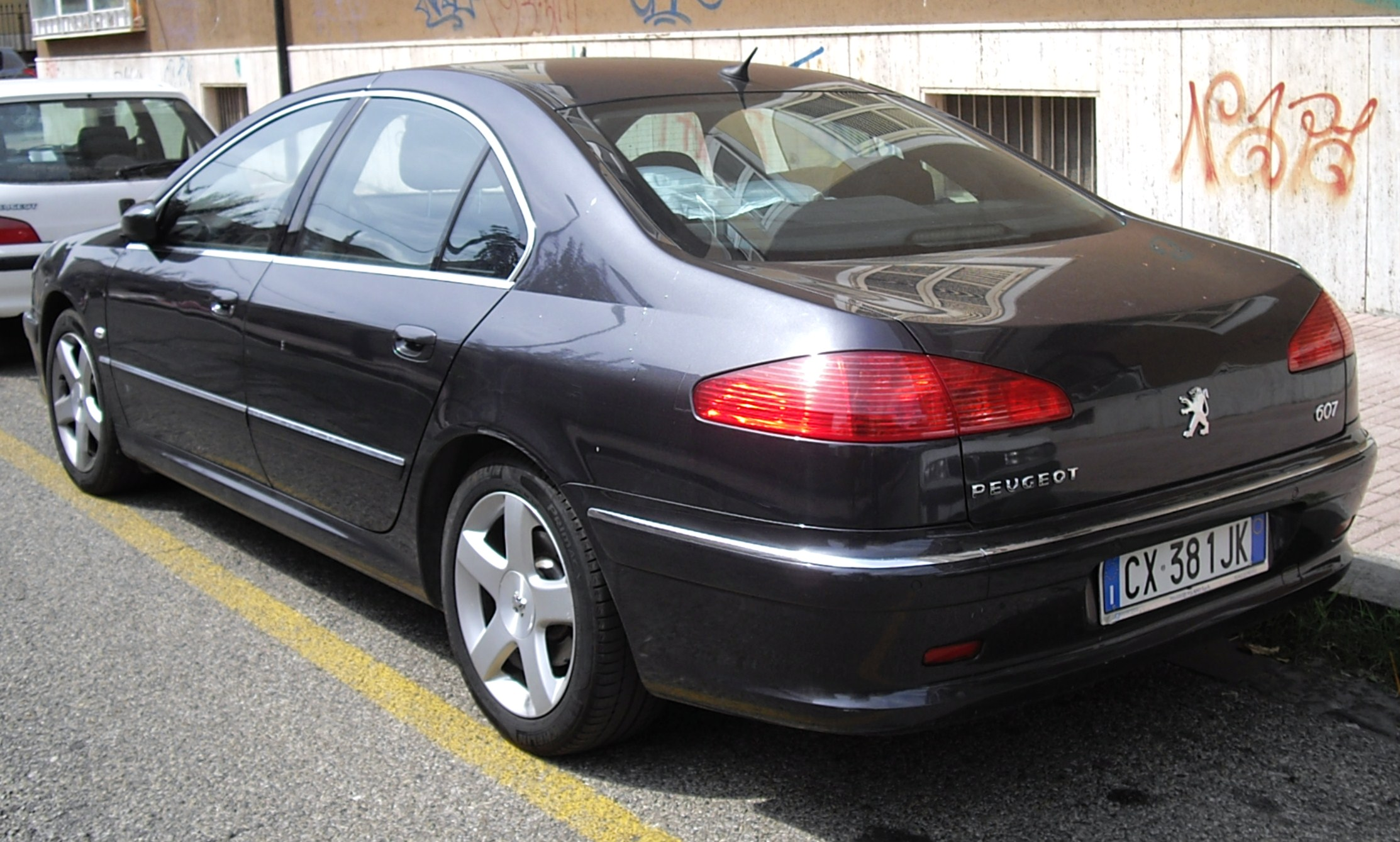 2008 Peugeot 607 rear